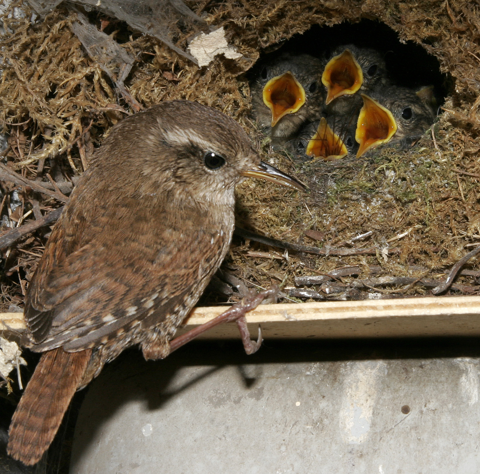 A Eurasian Wren (Troglodytes troglodytes), adult with hatchlings, picture taken on May 5th, 2007 in Bensheim (Germany).